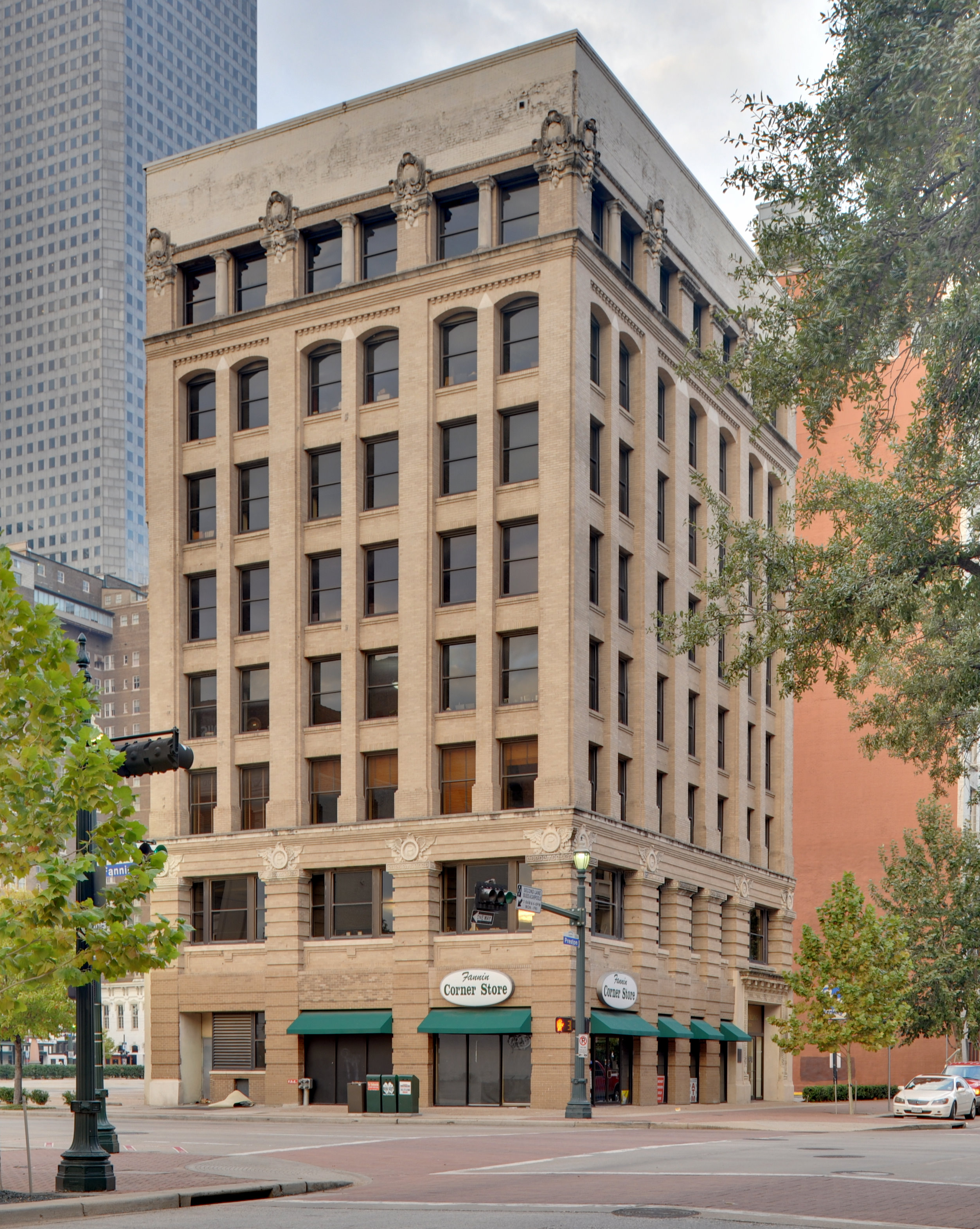 The Paul Building at 1018 Preston Ave., Houston (Texas, USA) is listed in the National Register of Historic Places, United States Department of the Interior.